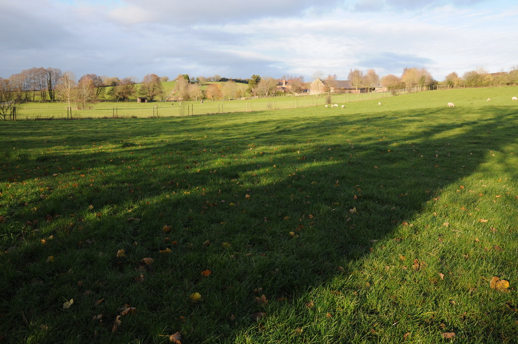 Cwrty Brychan, near Llansoy